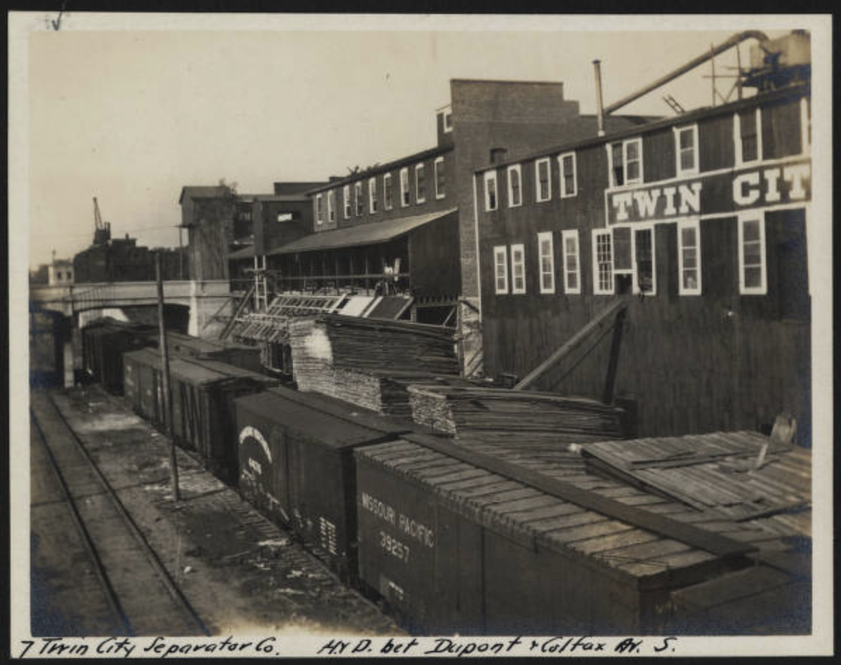 Businesses located along the Chicago, Milwaukee and Saint Paul Railroad. The 24 original businesses in the early 1900s